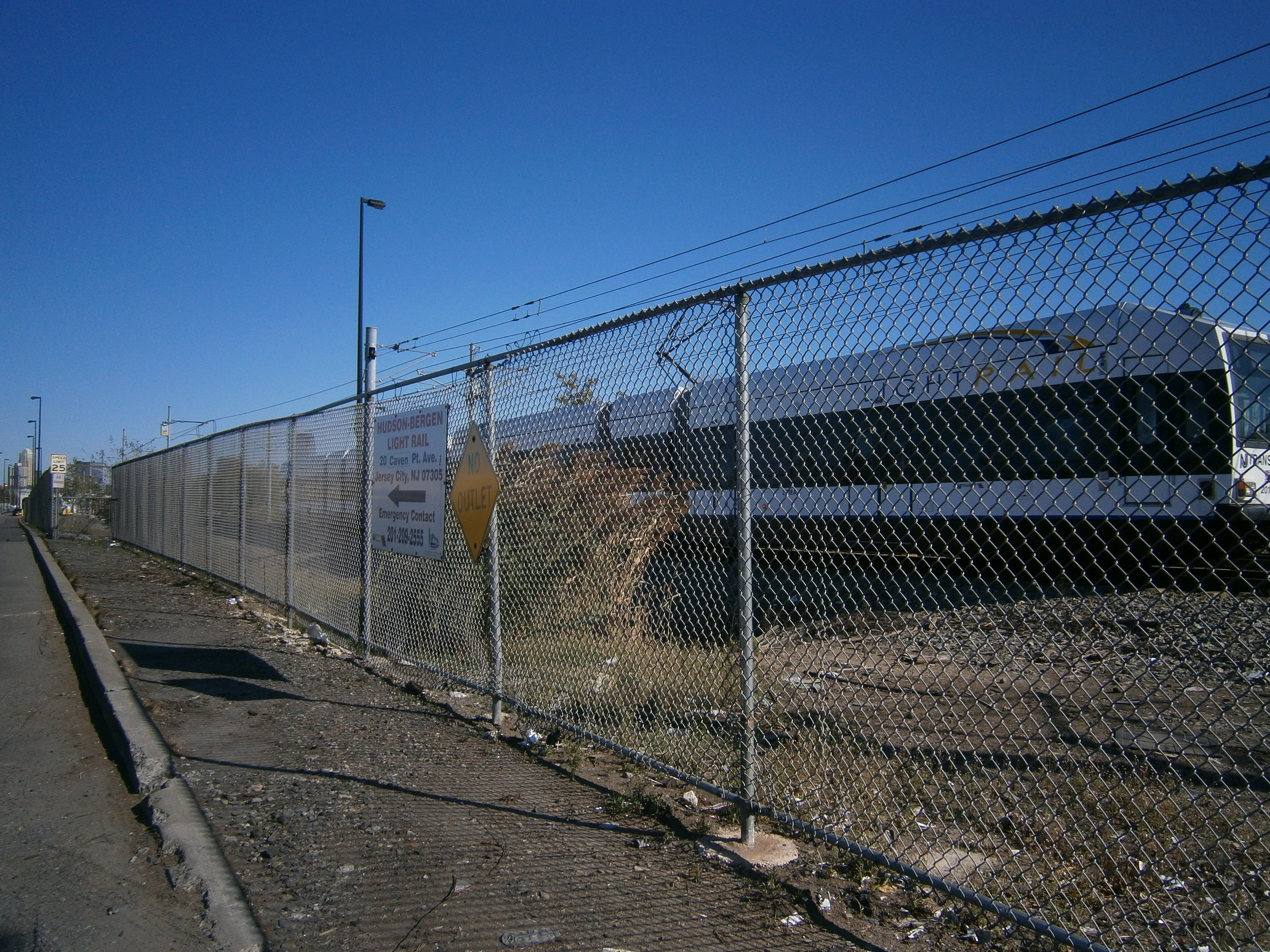 Panned site of Hudson bergen Light Rail station at Caven Point Avenue along eastern perimeter of Canal Crossing redevelopment area